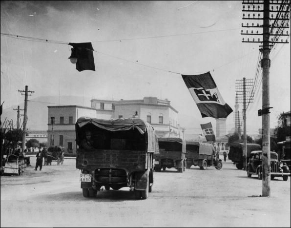 Italian invasion of Albania